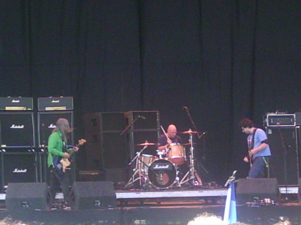 Dinosaur Jr at the 2005 Leeds Festival, England